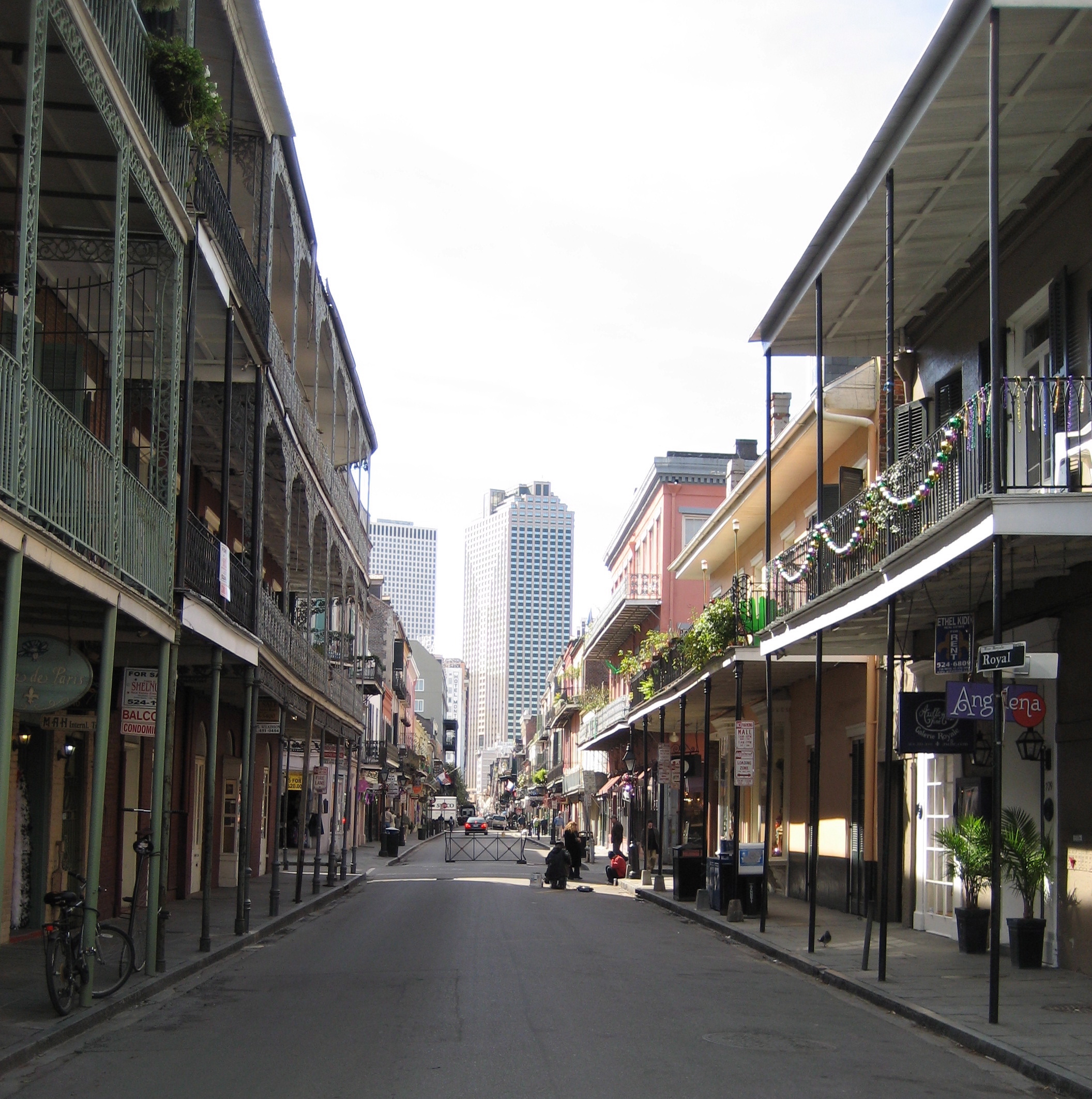 French Quarter, New Orleans, Louisiana Royal Street looking upriver; Central Business District highrises in distance